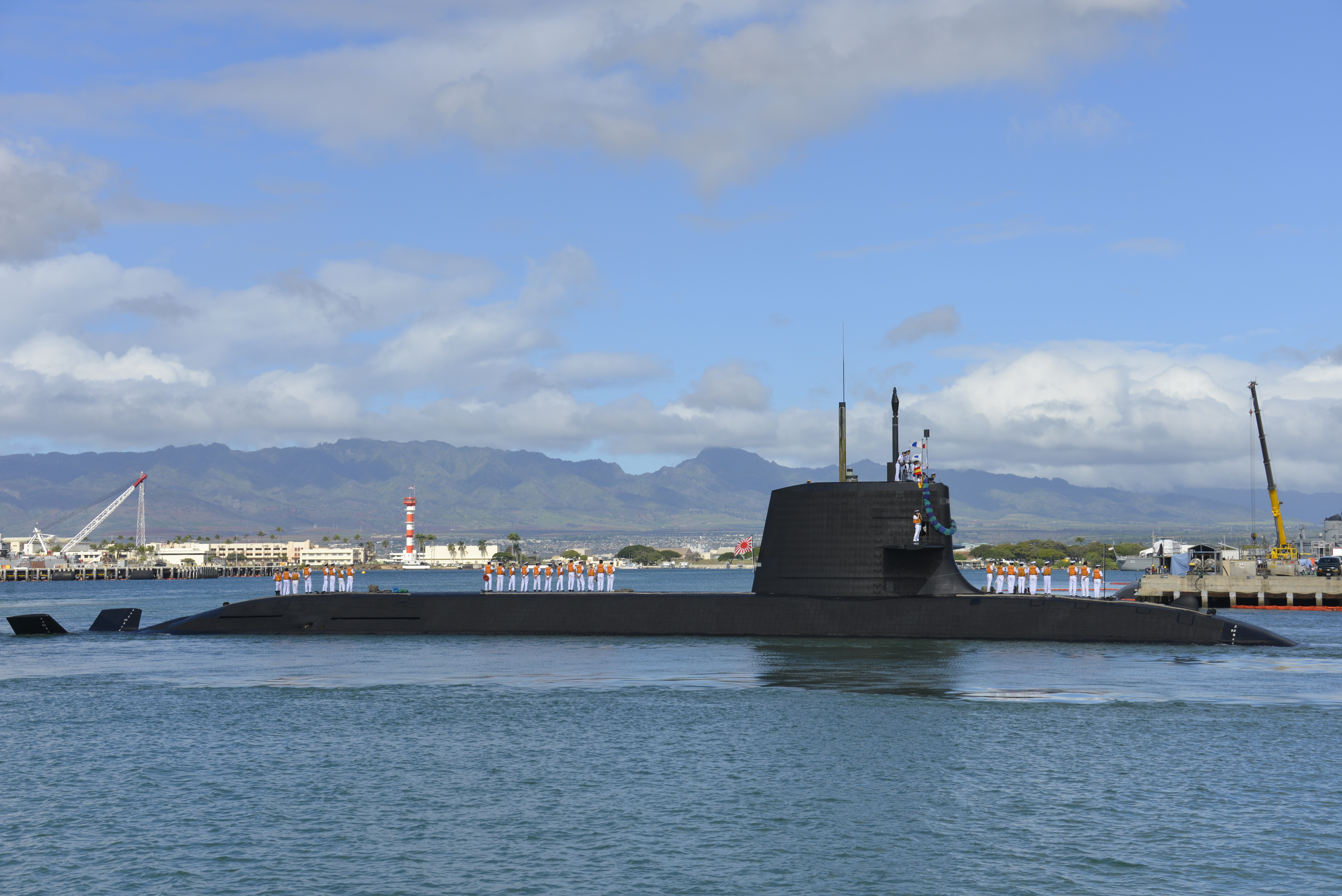 Japan Maritime Self Defense Force (JMSDF) submarine Hakuryu (SS-503) arrives at Joint Base Pearl Harbor-Hickam for a scheduled port visit, Feb. 6. While in port, the submarine crew will conduct various training evolutions and have the opportunity to enjoy the sights and culture of Hawaii. (U.S. Navy photo by Cmdr. Christy Hagen/Released) Nikon D600 + AF-S Nikkor 28-300mm f/3.5-5.6G ED VR ↑ 平成24年度第2回米国派遣訓練（潜水艦）について - 海上幕僚監部、2013年1月11日